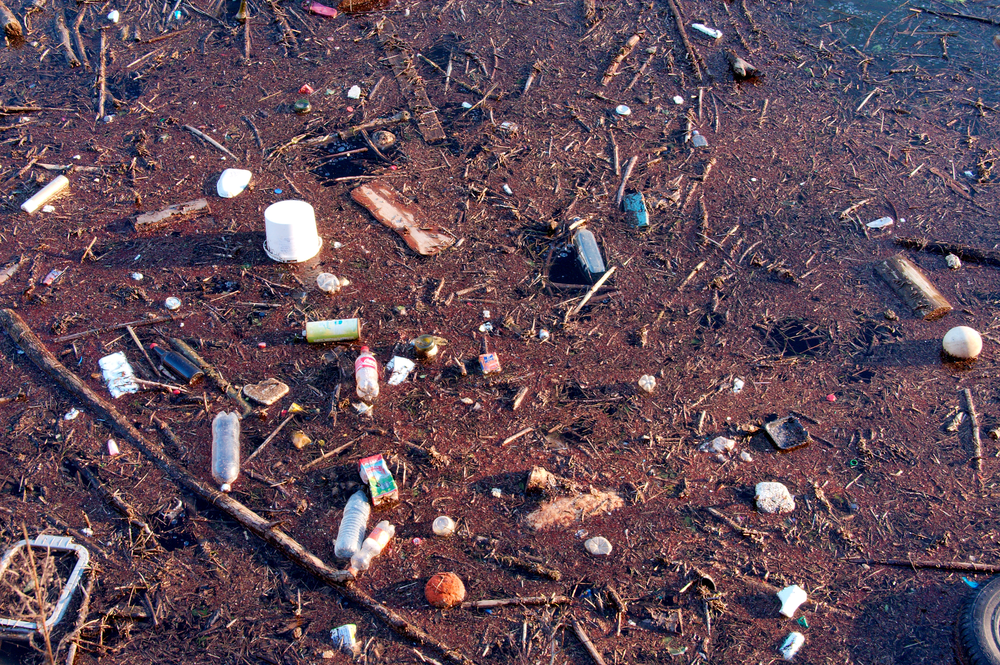 Pollution of the Ourthe river, in Belgium.